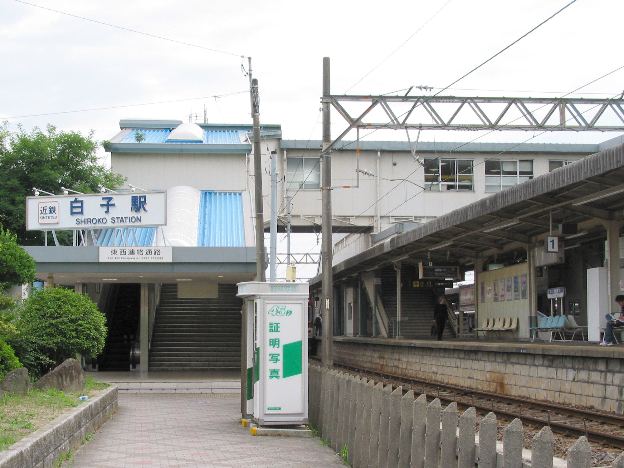 Shiroko Station Kintetsu Nagoya Line, Kintetsu Corporation. I took this image at Shiroko-Honmachi Suzuka Mie, Japan. 近畿日本鉄道名古屋線白子駅 三重県鈴鹿市白子本町にて撮影